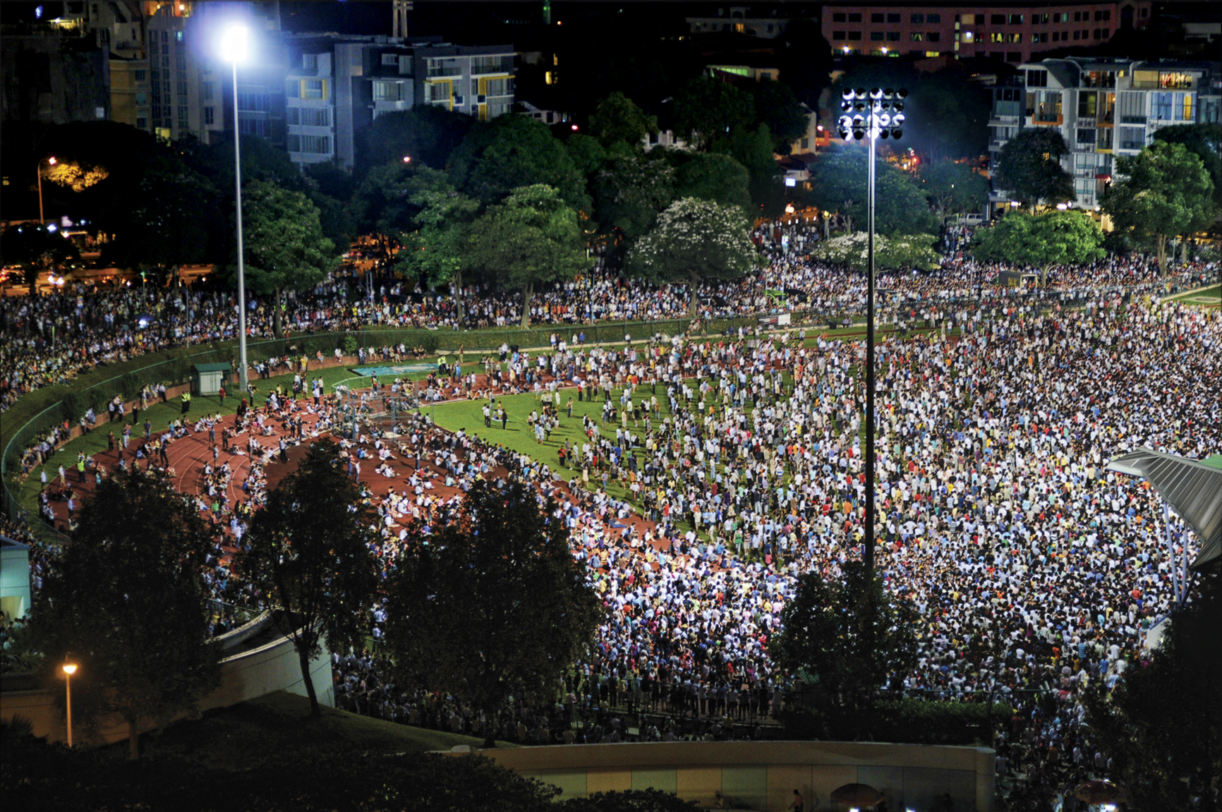 A rally by the Workers' Party of Singapore at Serangoon Stadium for the Singaporean general election, 2011. (Shot without a tripod at high ISO 640.)